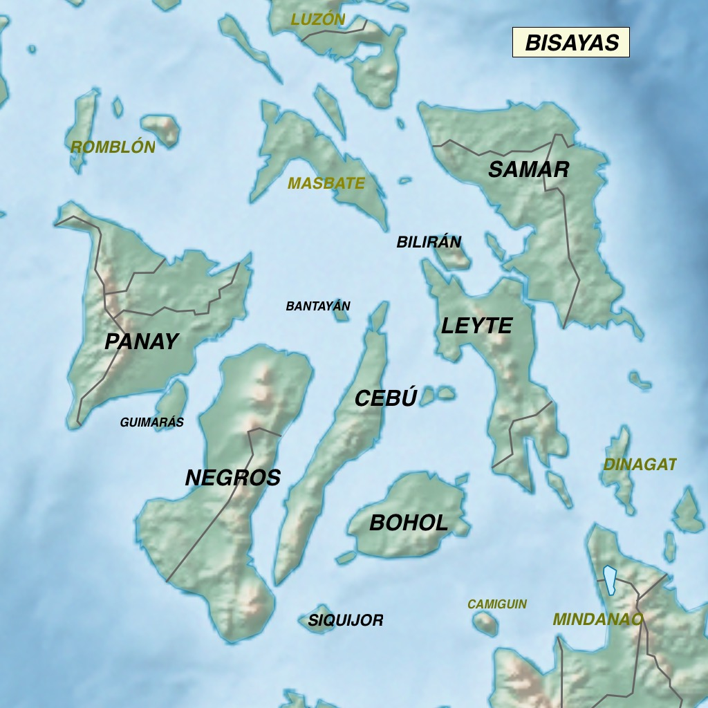 Topographic map of Visayas island in Philippines